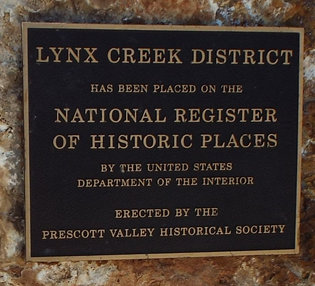 National Register of Historic Places Marker of Lynx Creek District